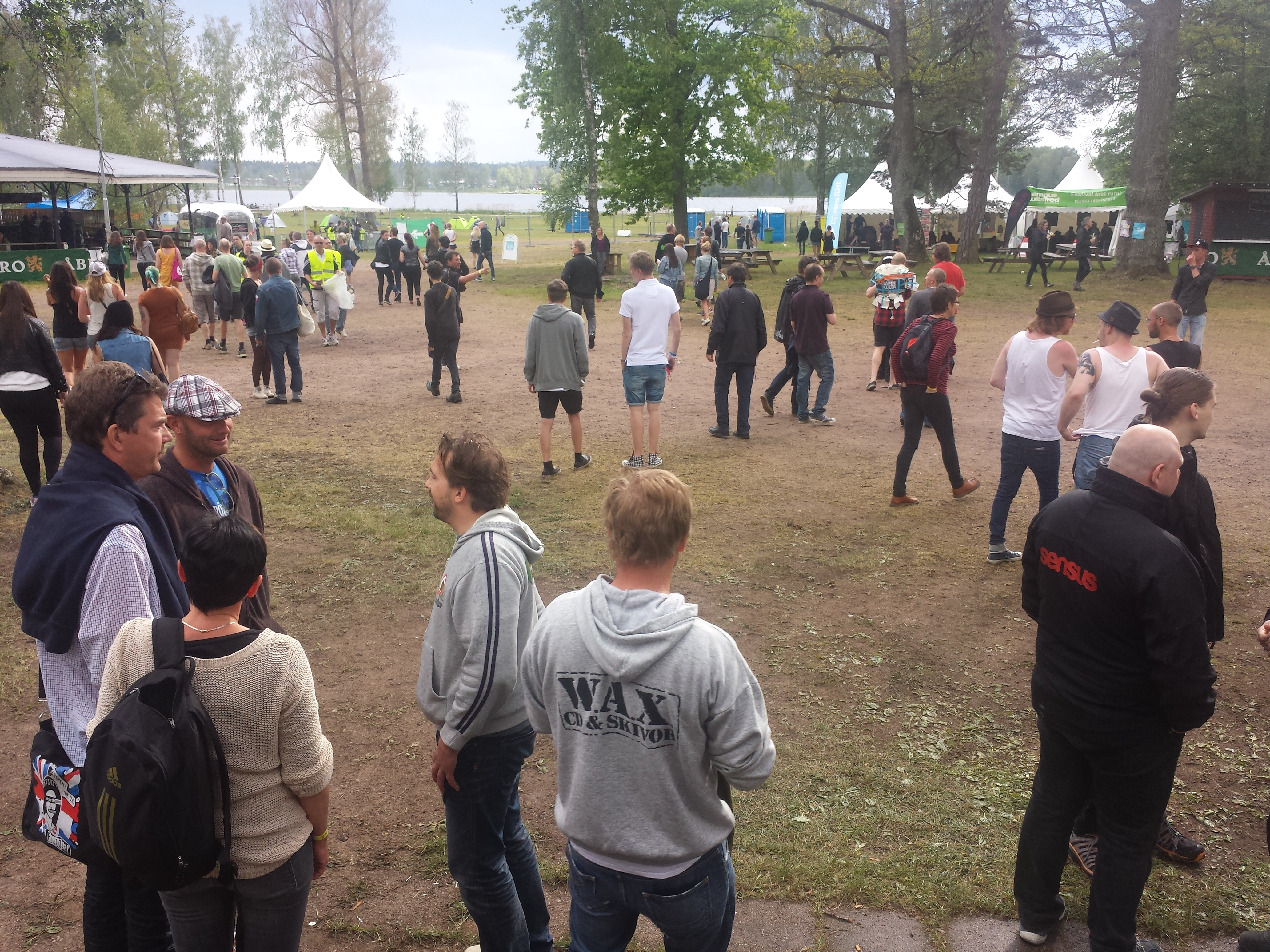 Festival site of "This is Hultsfred". In the background is the lake Hulingen.